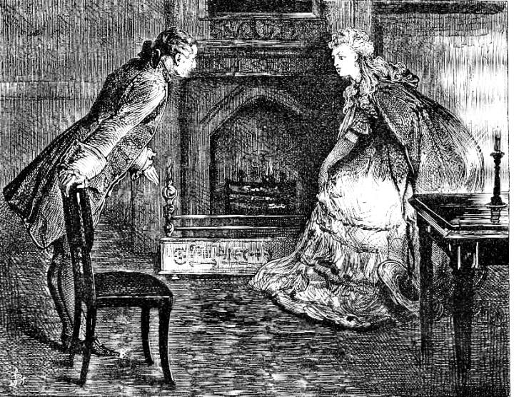 A Tale of Two Cities, Lucie Manette meets Mr. Jarvis Lorry, "She curtsied to him . . ." by Fred Barnard.